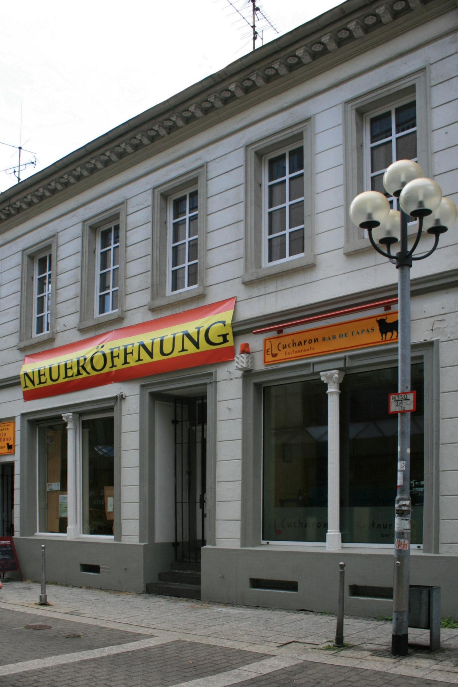 Cultural heritage monument No. W 009 in Mönchengladbach